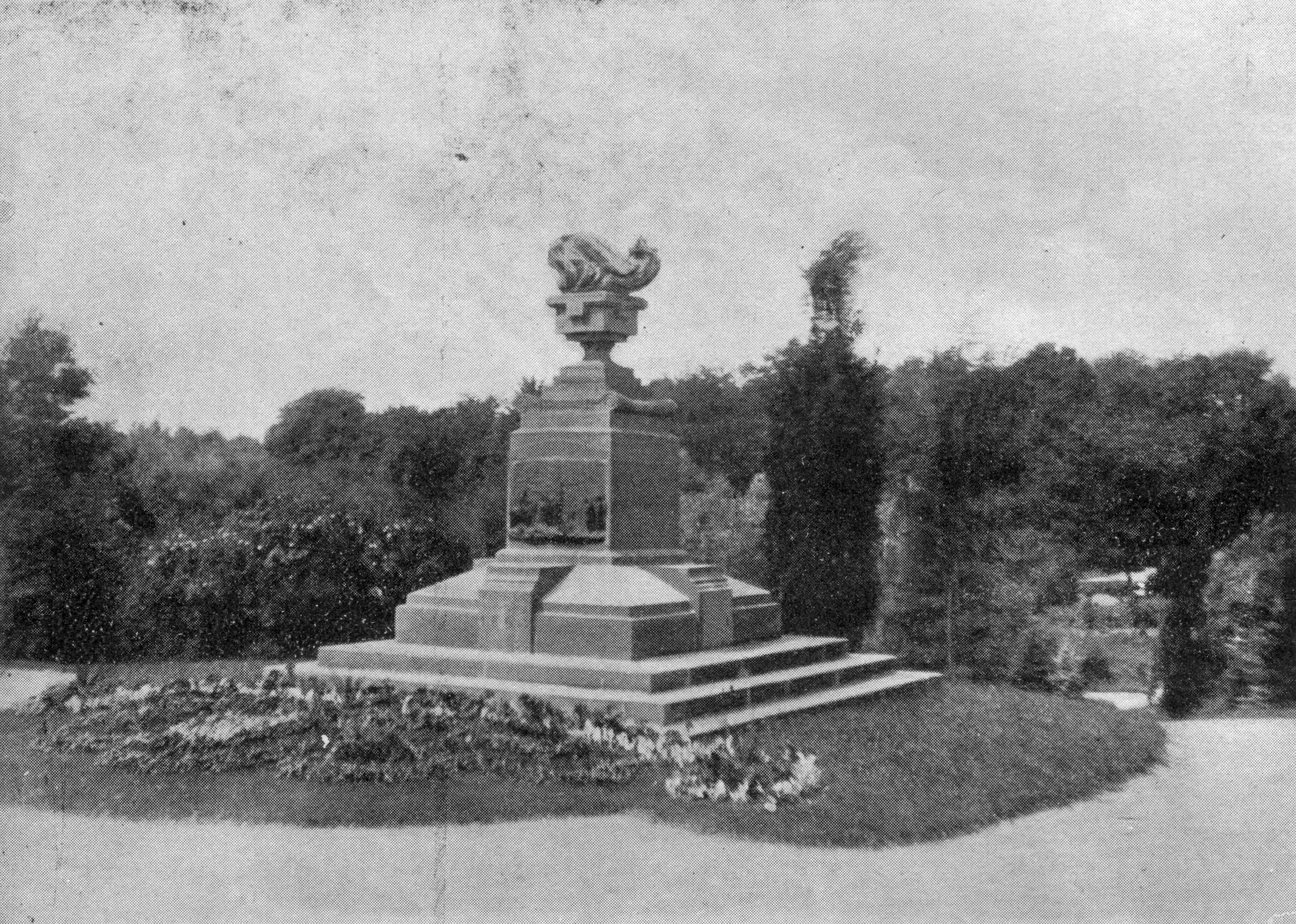 Stanislao Bechi Monument, Włocławek, Poland